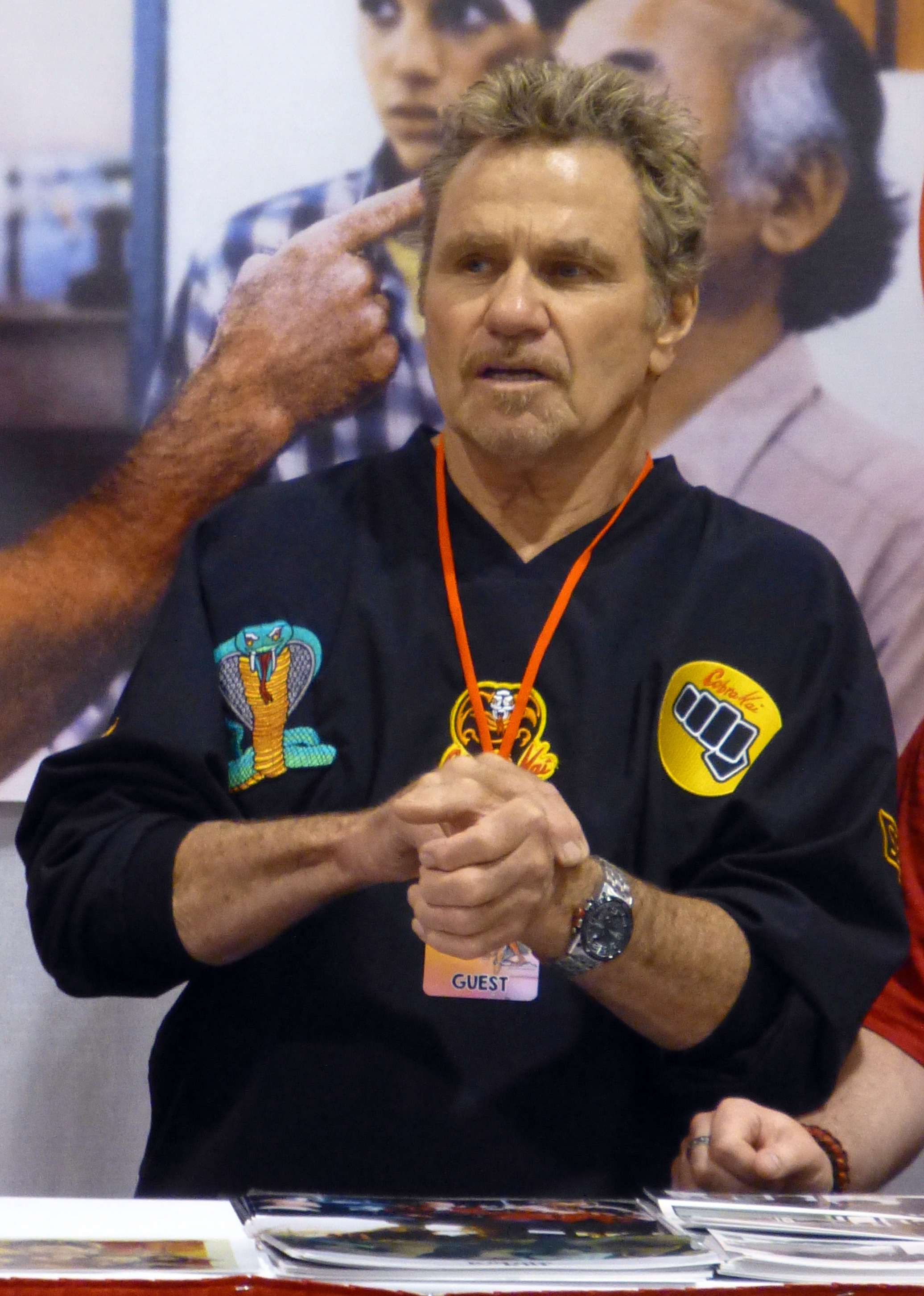 Martin Kove in 2015